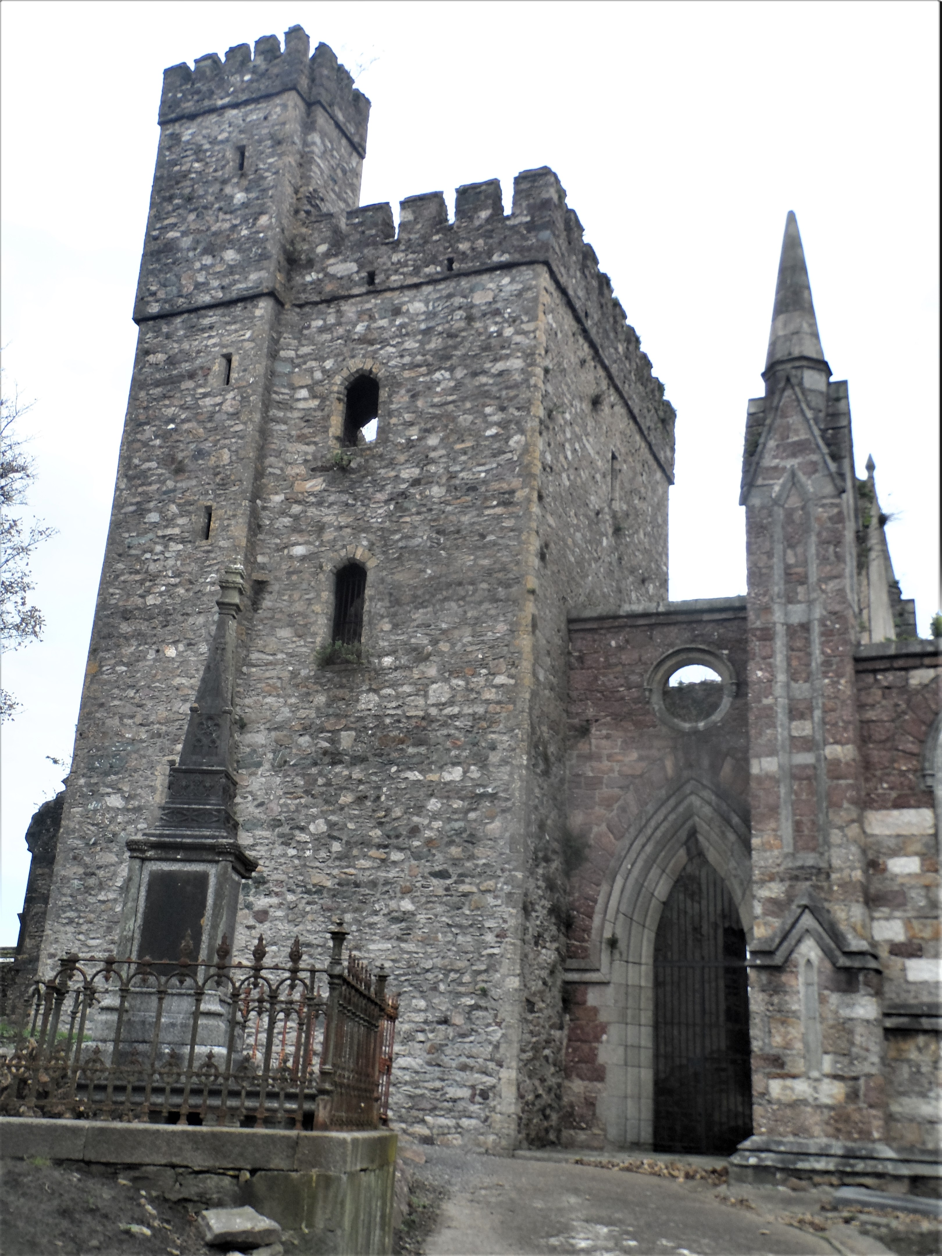 Selskar, Wexford